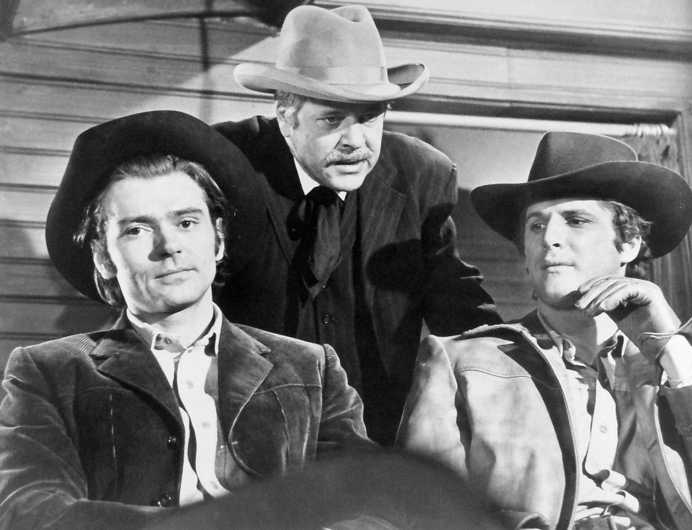 Photo of Pete Duel, William Windom and Ben Murphy from the television series Alias Smith and Jones.